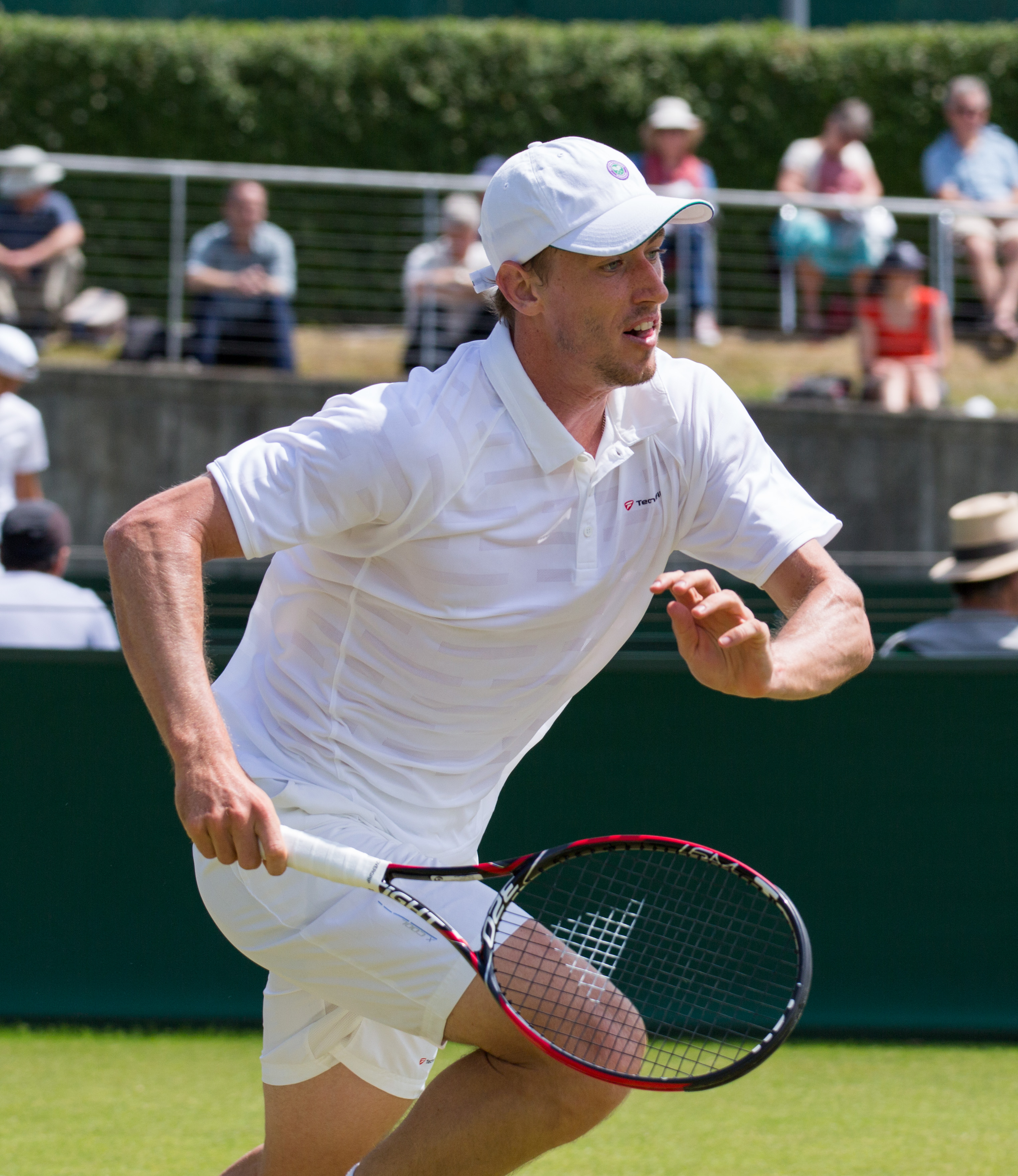 John Millman competing in the third round of the 2015 Wimbledon Qualifying Tournament at the Bank of England Sports Grounds in Roehampton, England. The winners of three rounds of competition qualify for the main draw of Wimbledon the following week.